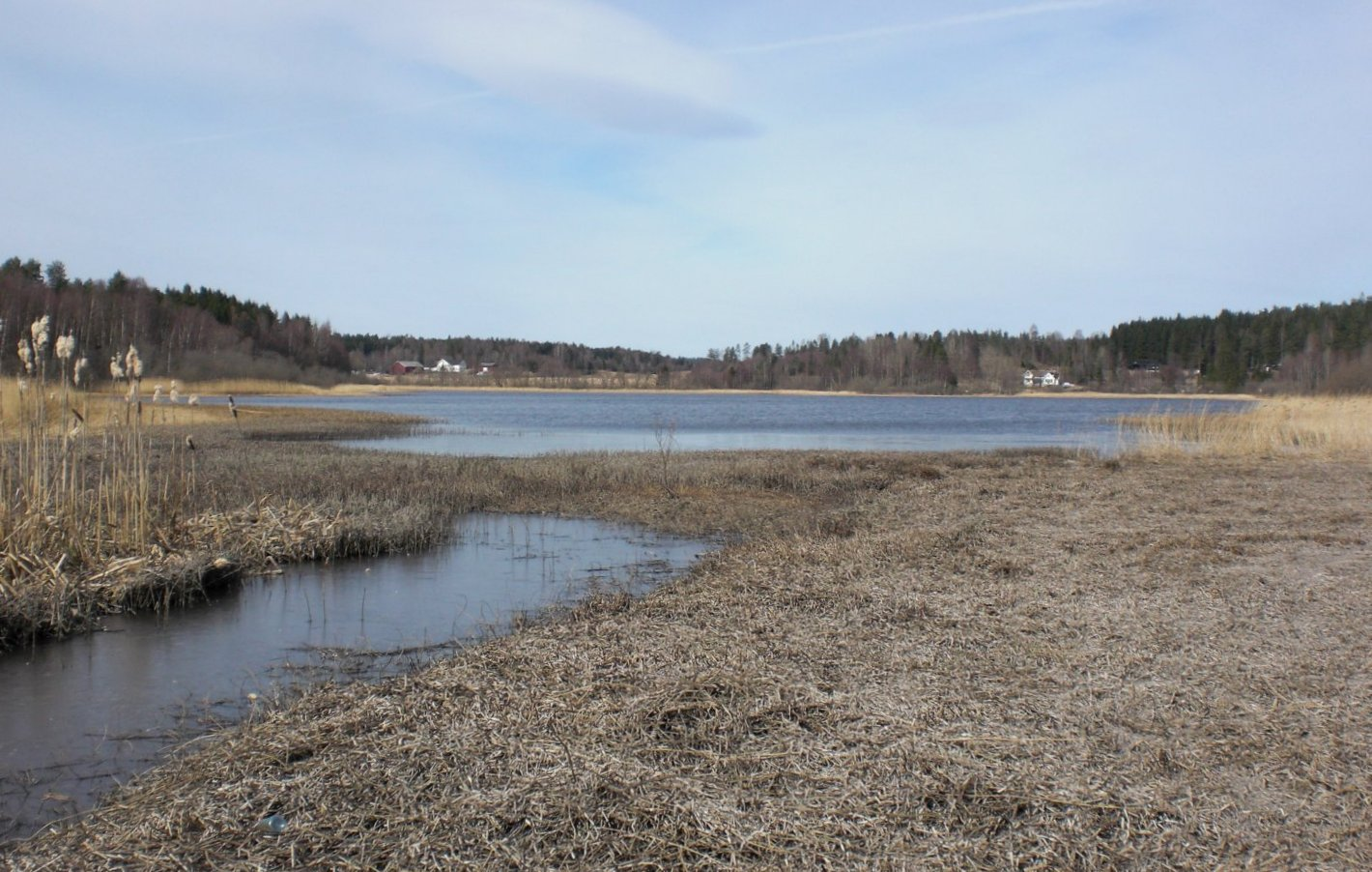 Midsjøvann, view from south, early spring